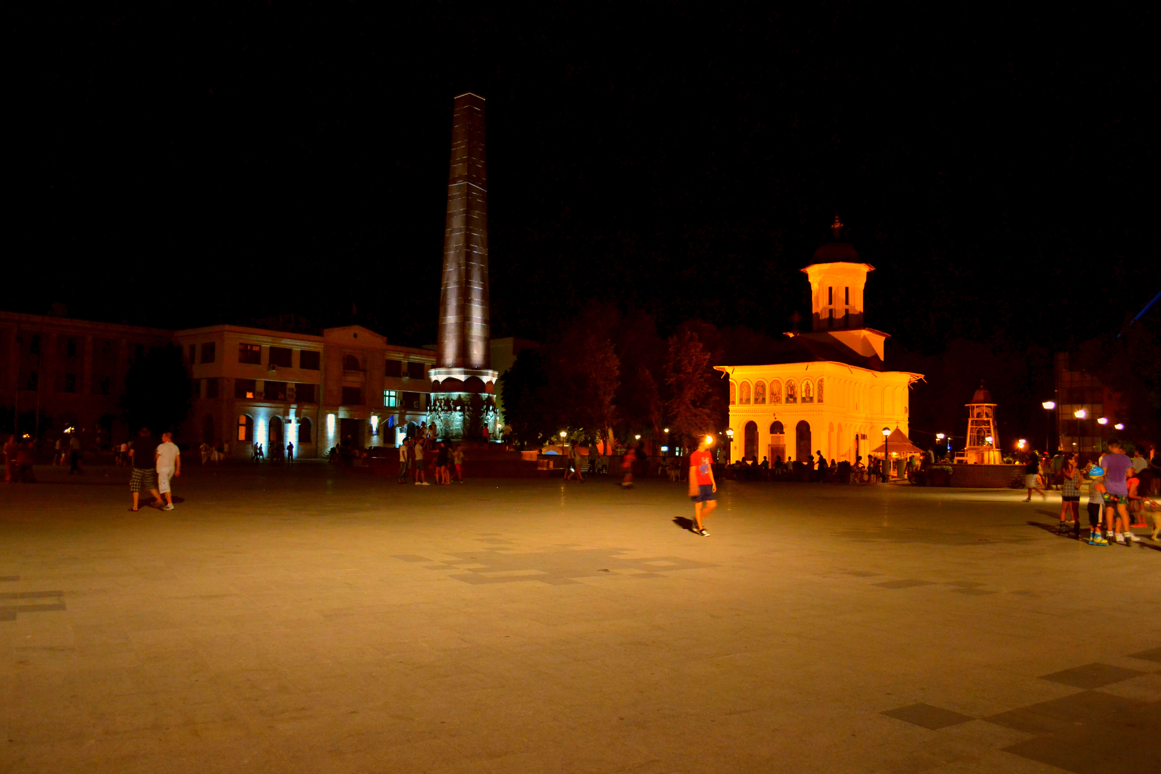 Union Square